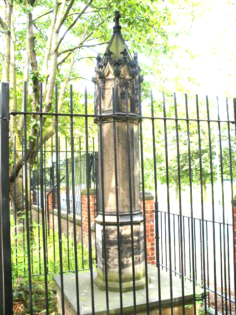 Richard of York Memorial, near to Wakefield, Great Britain. The Richard of York Memorial was erected over 110 years ago marking the spot where Richard Plantagenet fell in the Battle of Wakefield 1460.